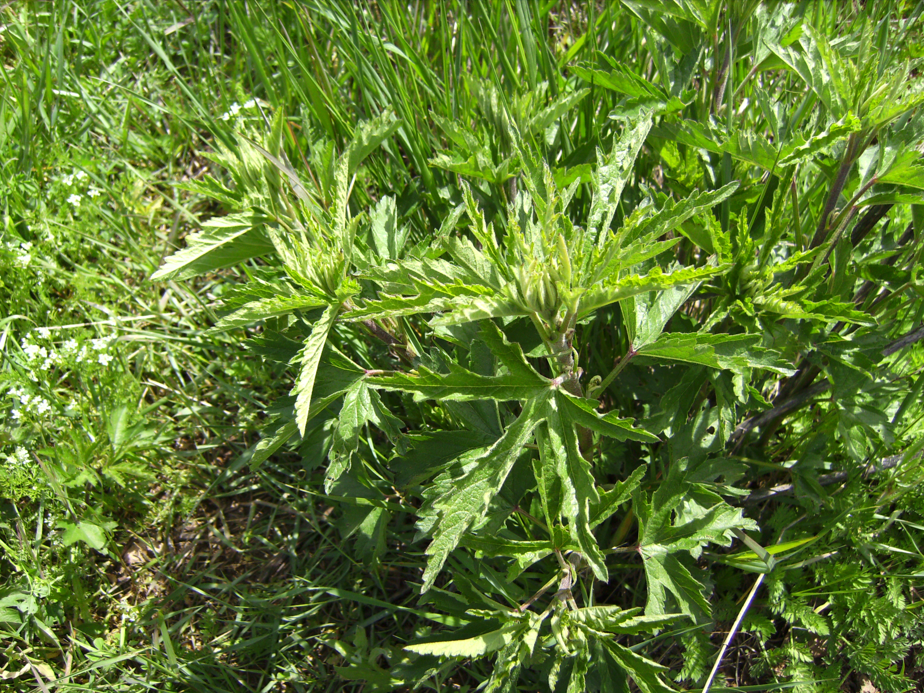 Althaea cannabina, Castelltallat, Catalonia